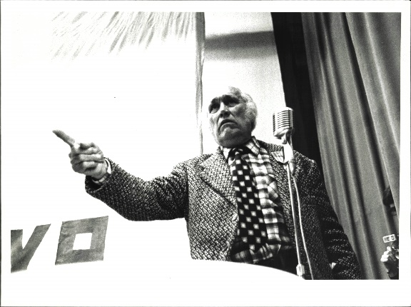 Ramon Mas i Colomer